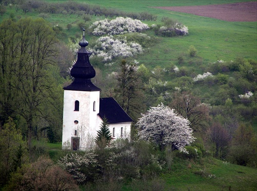 Roman catolic church from 1254 year.